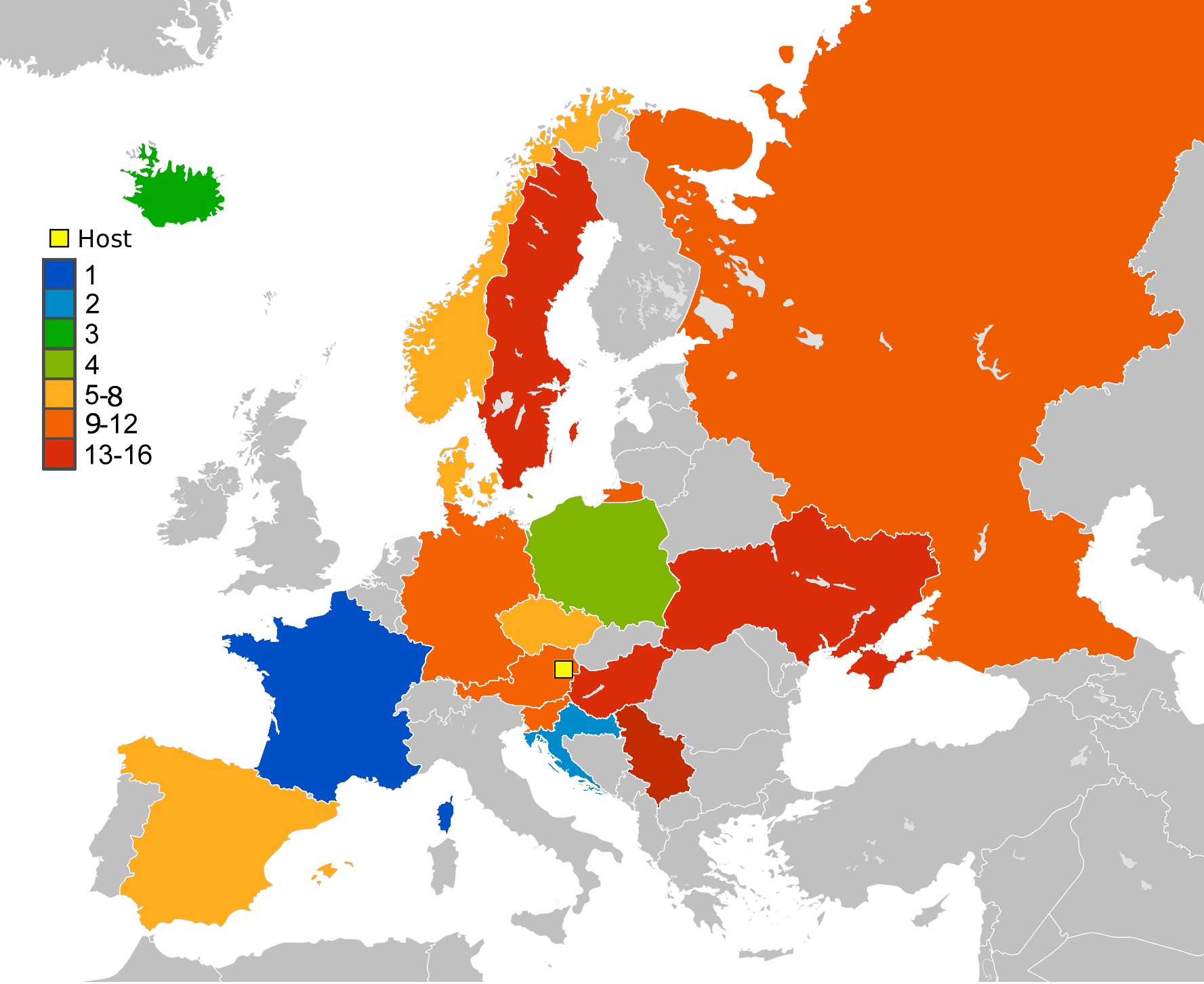 Results map of 2010 EHF Championship Based on File:Blank map of Europe 2.svg. Edited in Pixlr [1]